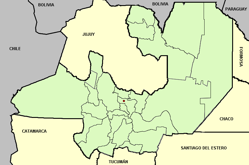 It shows administrative boundaries of Salta province in Argentina, its departments and its capital (Salta city).